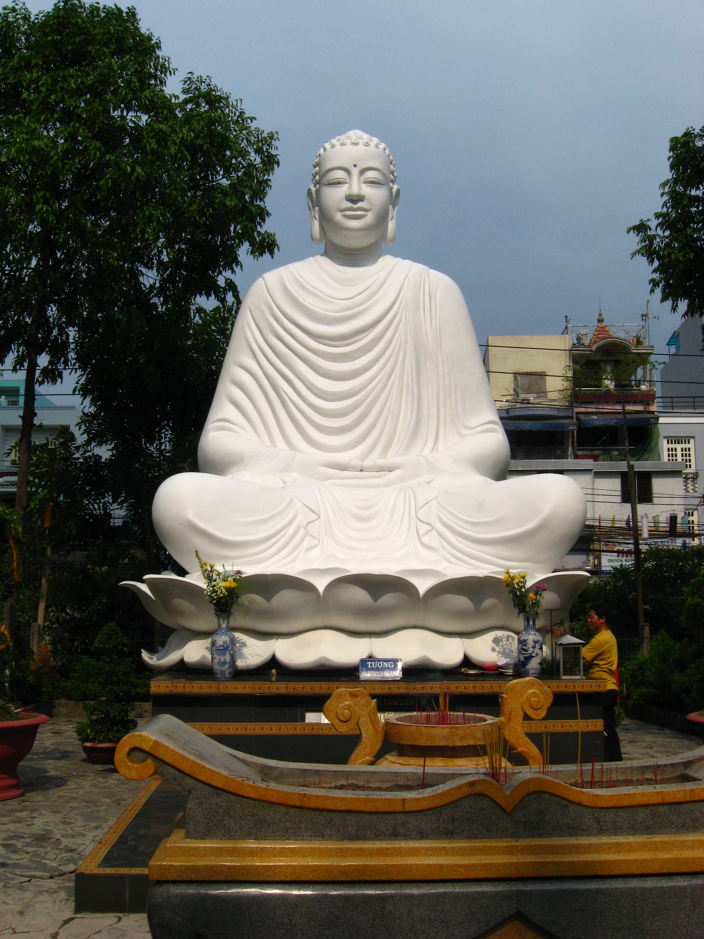 The great Buddha statue at Giac Lam Pagoda — in Vietnam.